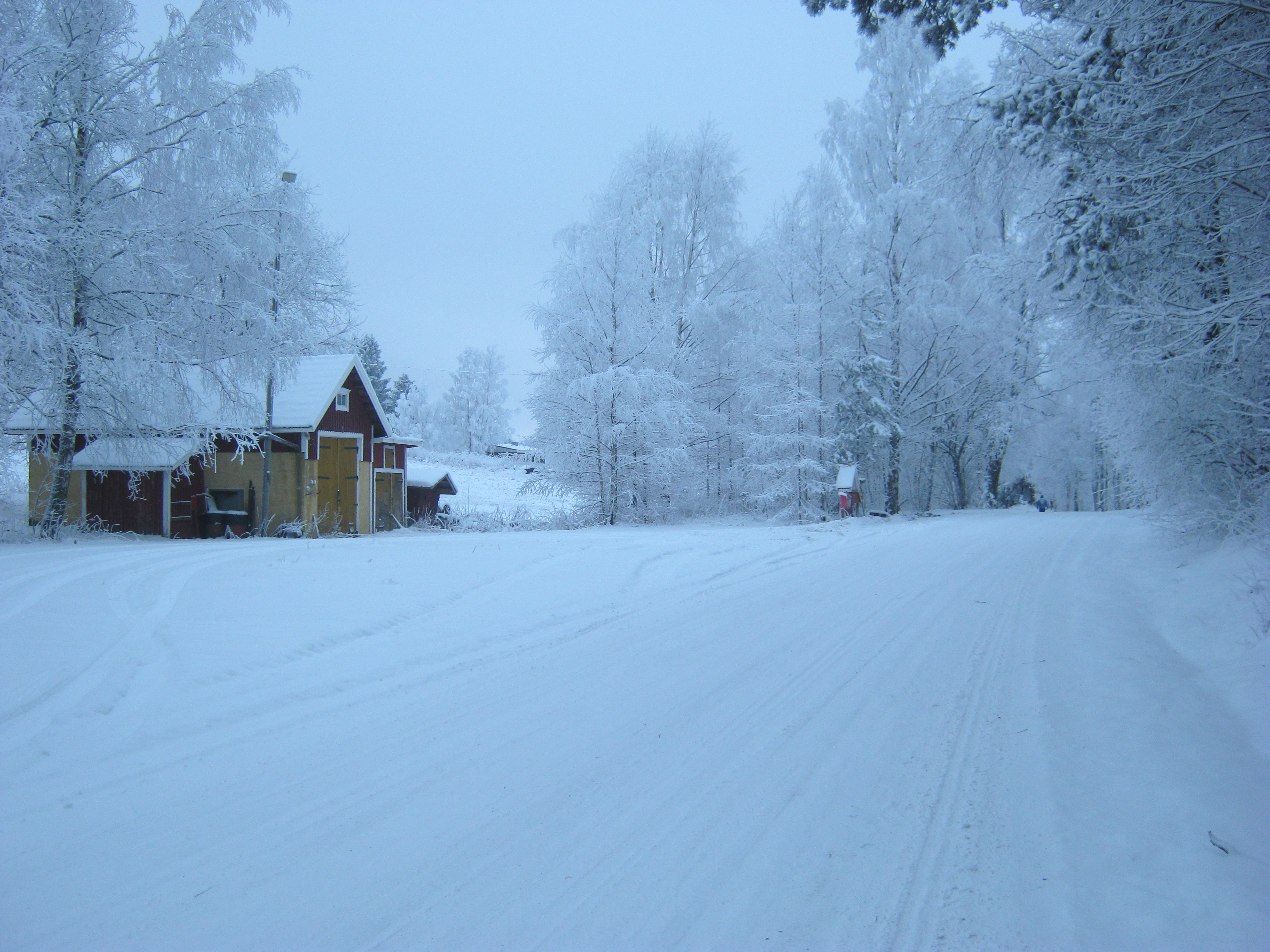 View of the Hämeenmäki village.